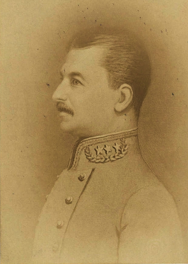 Colton Greene in uniform, Memphis Public Libraries